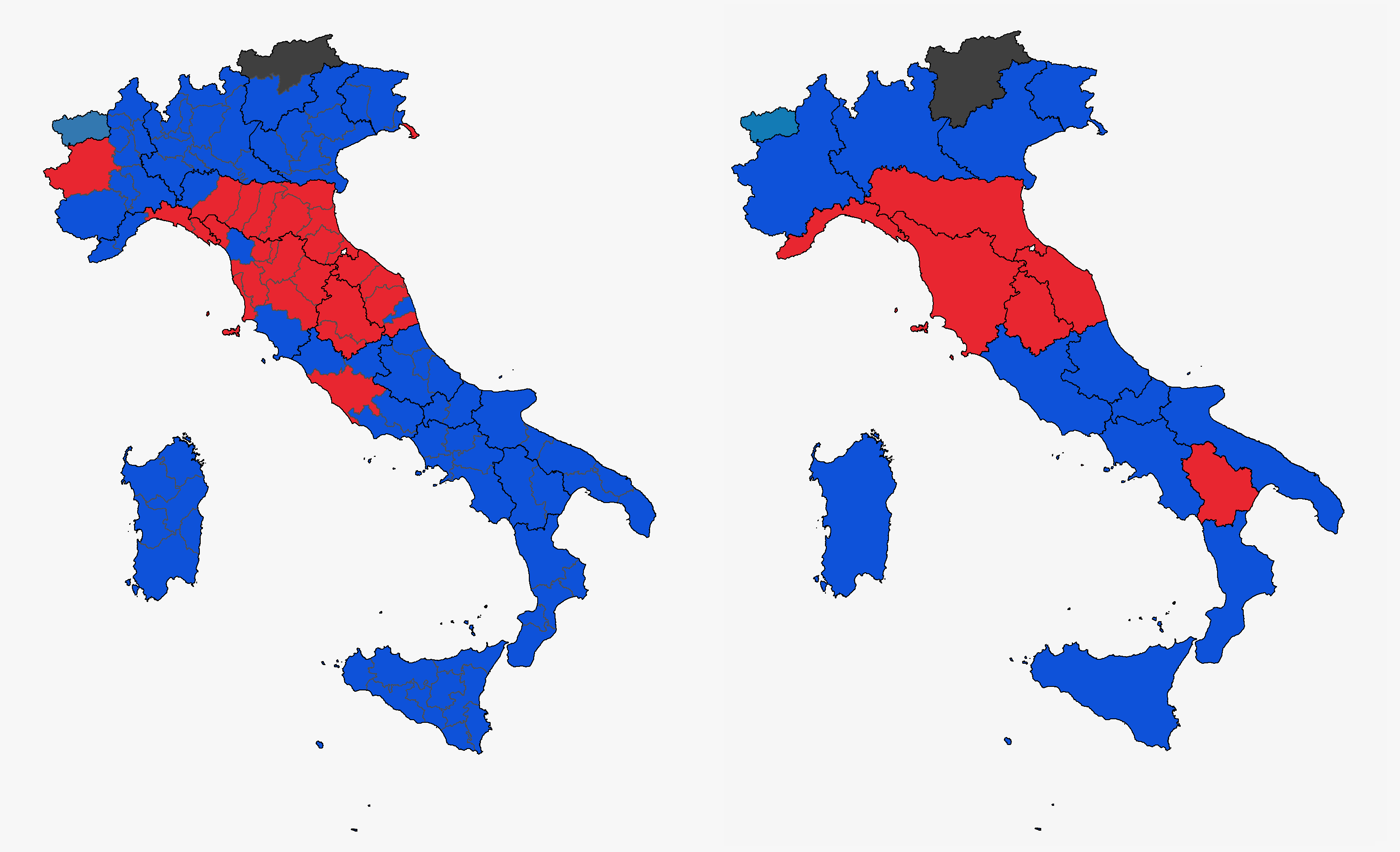 This is a map of Italian general election 2001